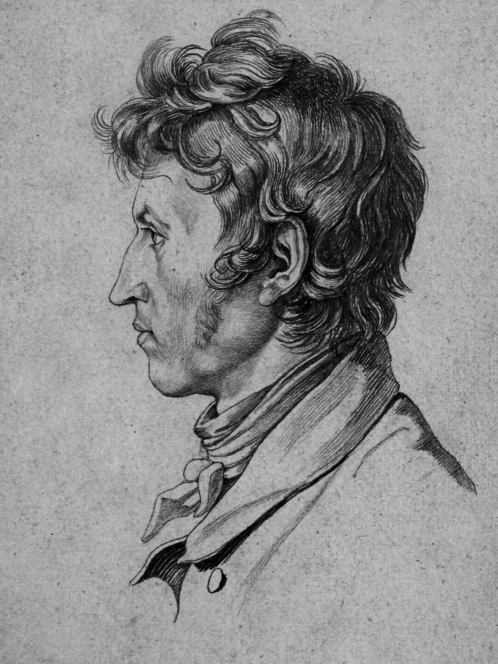 Heinrich Reinhold (1788-1825) in profile graphite 14.6 x 9.4 cm